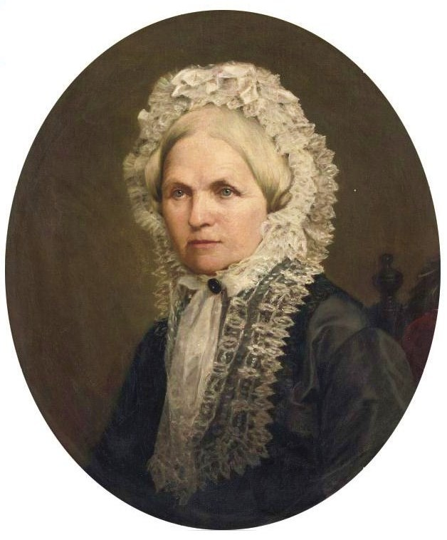 Portrait of Helene Duchess von Württemberg (1807-1880), Princess zu Hohenlohe-Langenburg, bust-length, wearing a black dress with a white bonnet